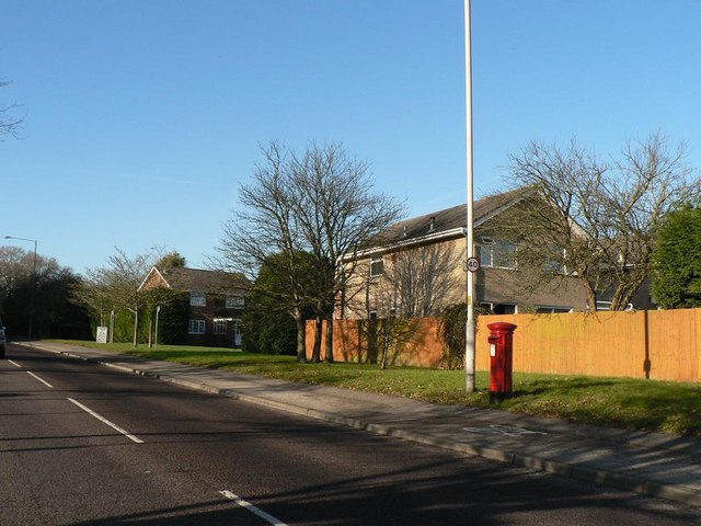 Merley: postbox № BH21 54, Queen Anne Drive This Elizabeth II-reign postbox is emptied finally at 5:30pm on weekdays and at 11:30am on Saturdays.